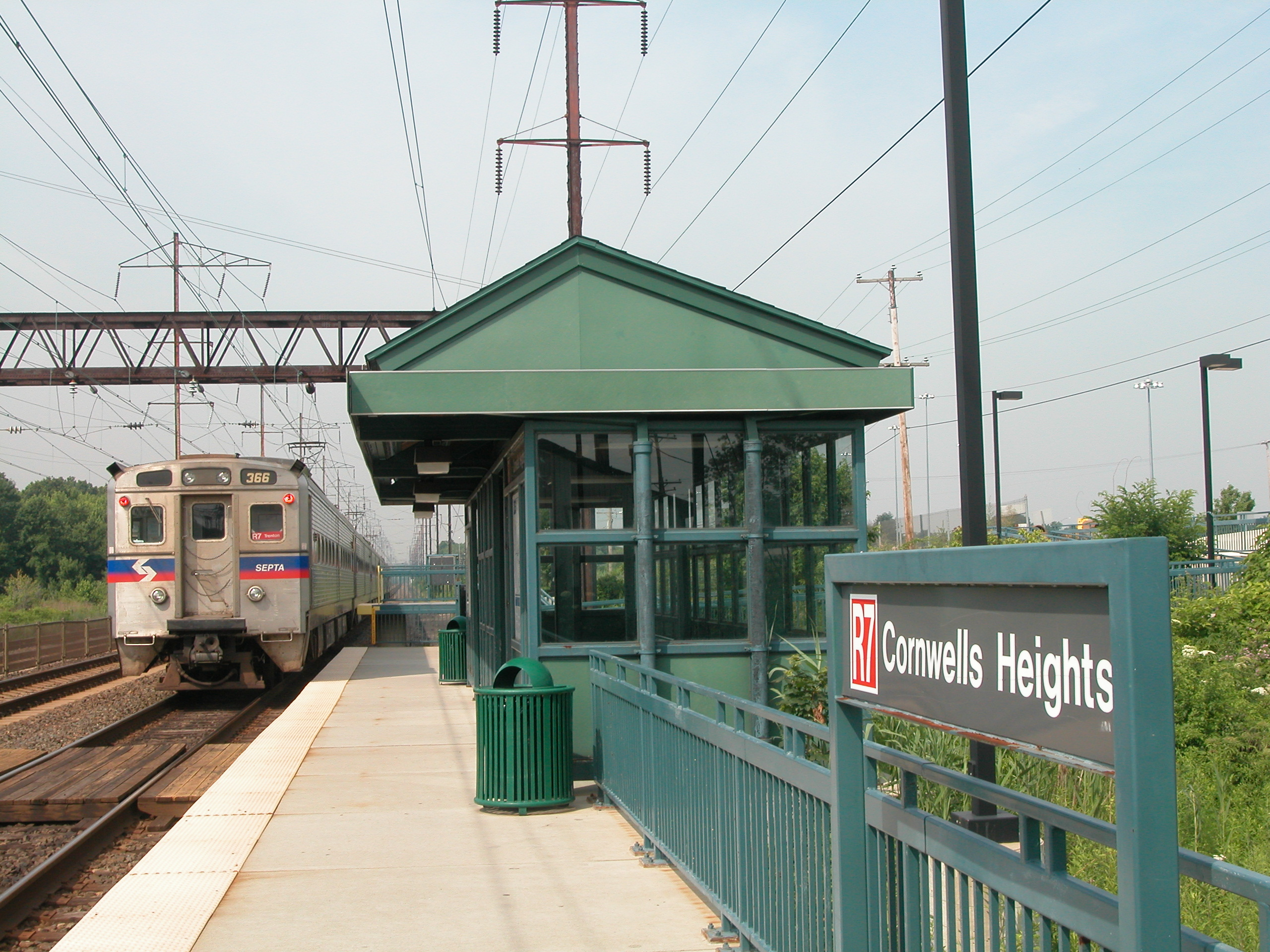 An R7 train at Cornwells Heights station in July 2003